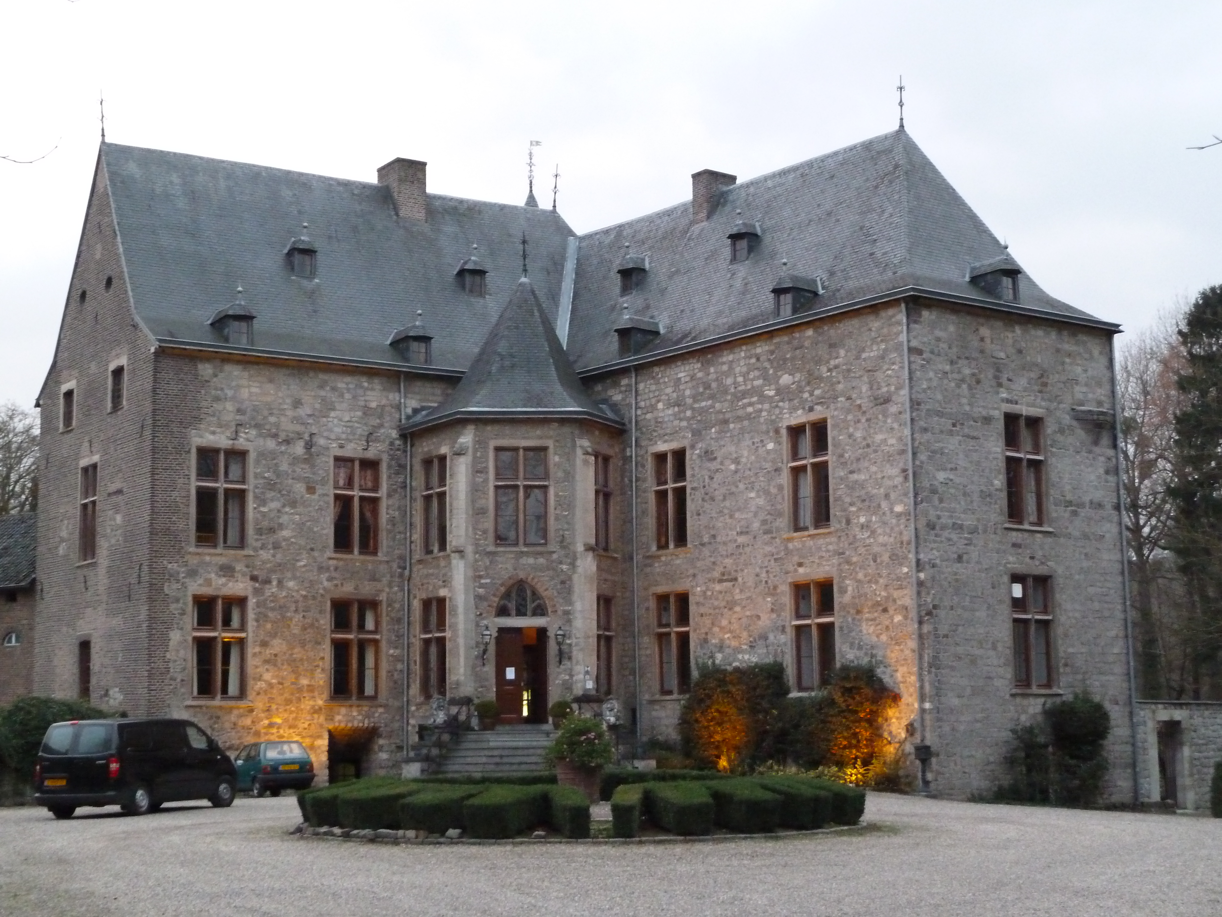 Kasteel Wittem, Wittem, Limburg, the Netherlands